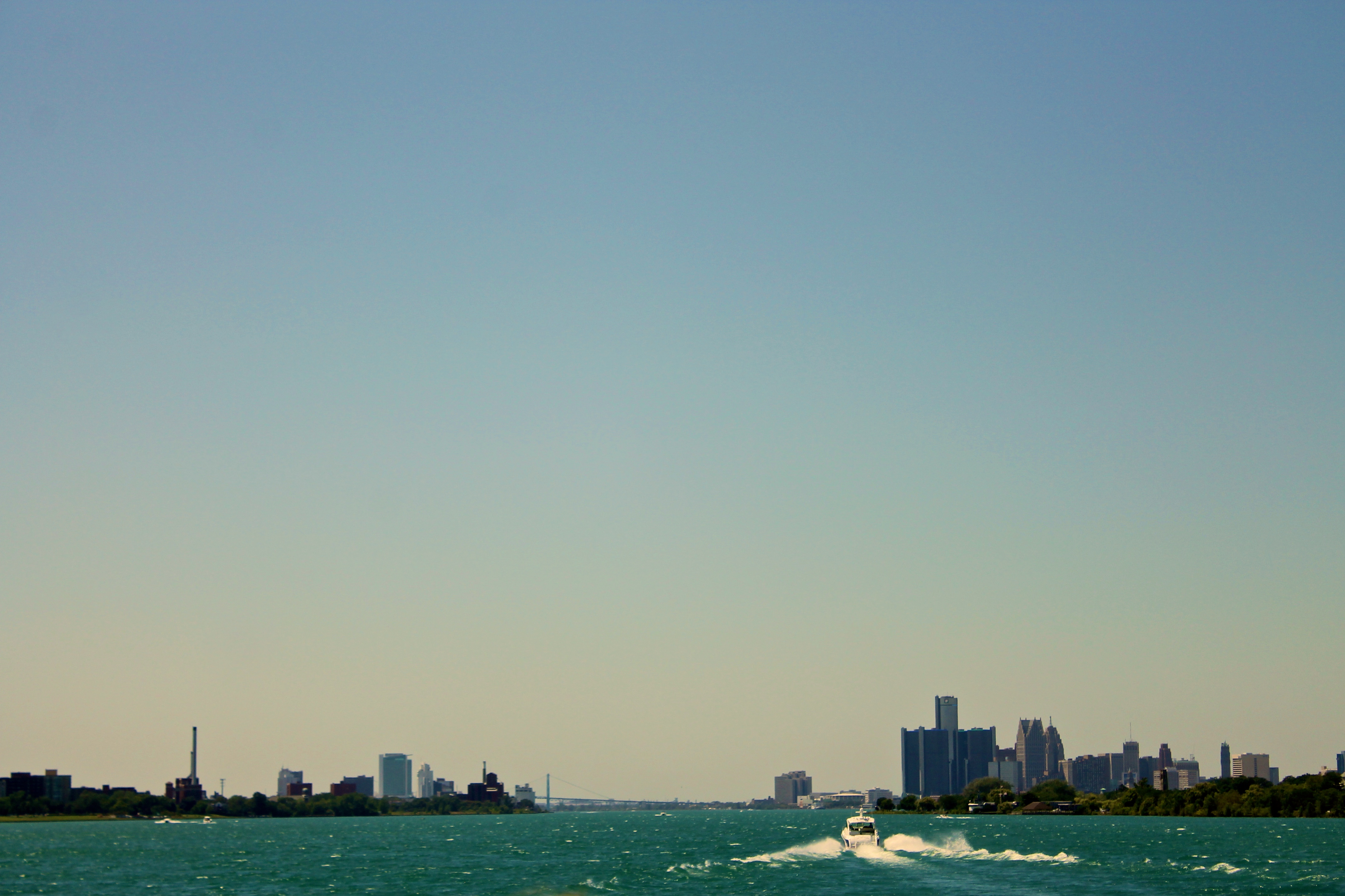 The Detroit skyline dominates on the right with Windsor sitting on the left side of the Detroit River facing southwest towards the Ambassador Bridge.